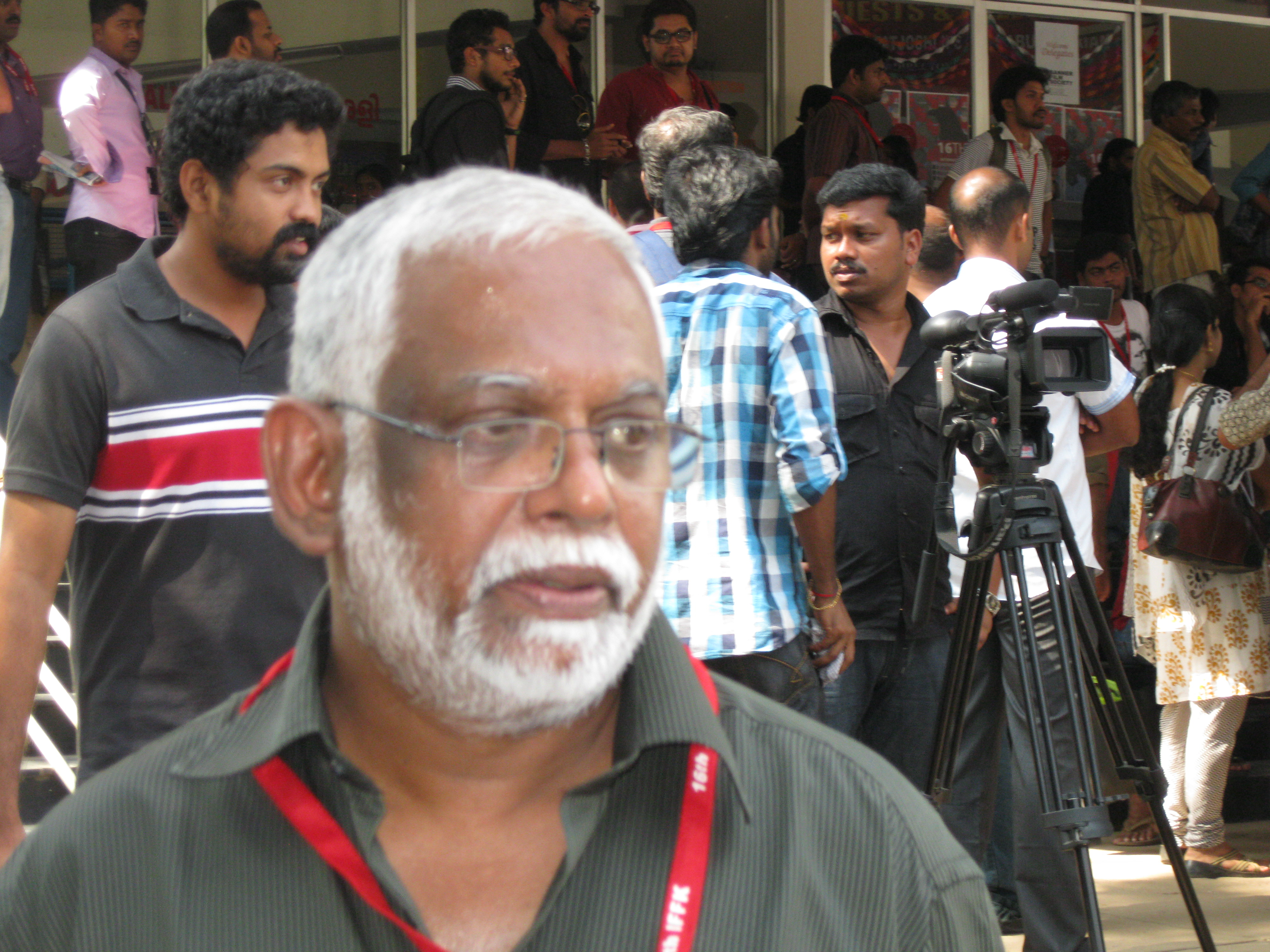 cameraman, malayalam film